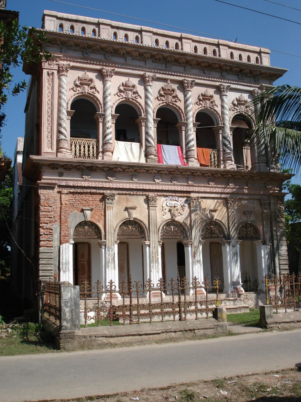 Ancient house at Sonargaon, near Dhaka, Bangladesh.Golden Village